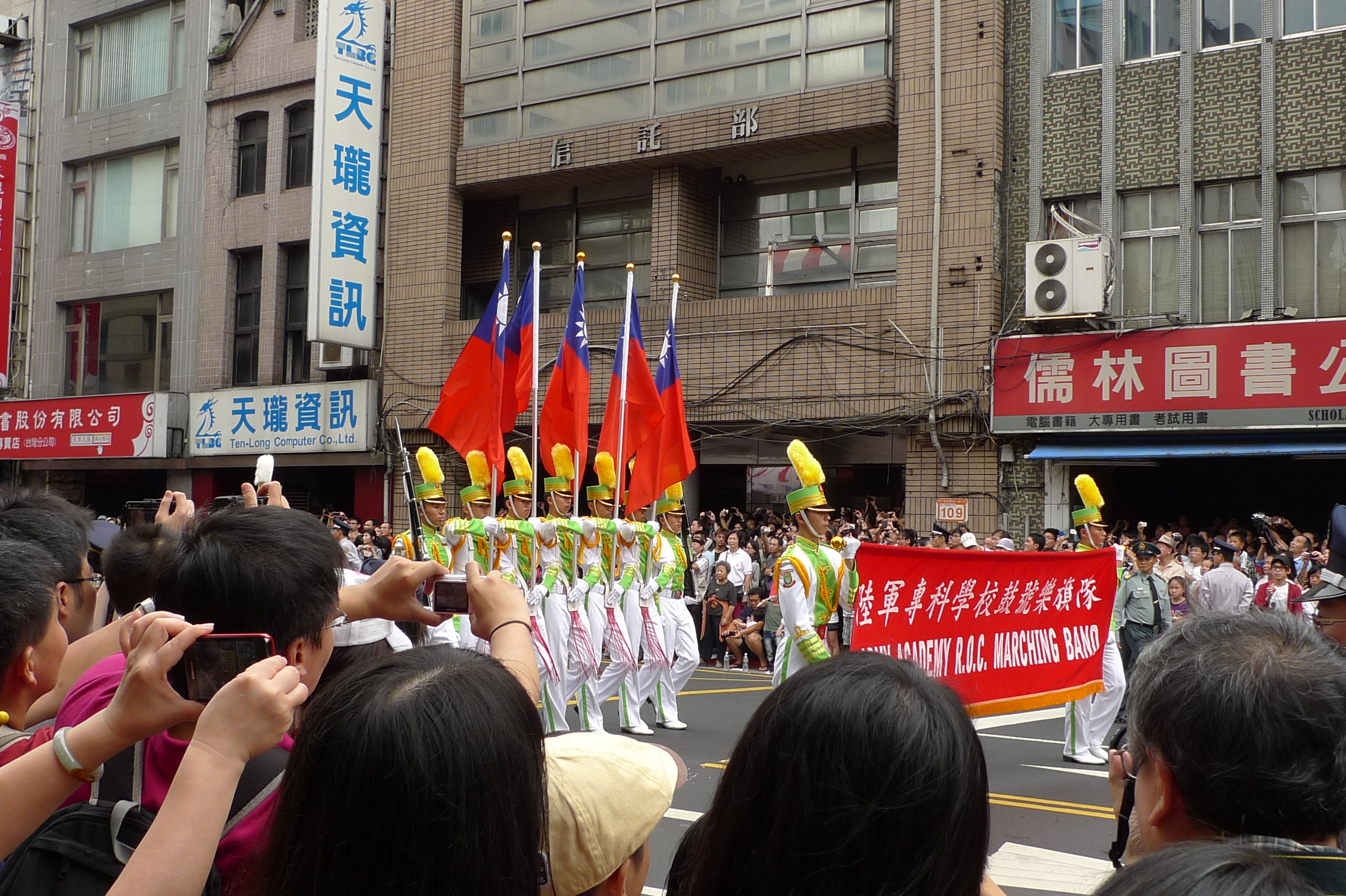 Army Academy R.O.C. Marching Band at 100th anniversary of the Republic of China.